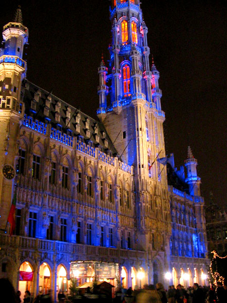 Brussels City Hall. taken by Pixie